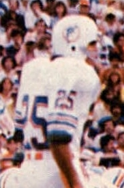 Miami Dolphins defensive back Tim Foley pictured in a defensive play during the 1978 AFC Wild Card game.